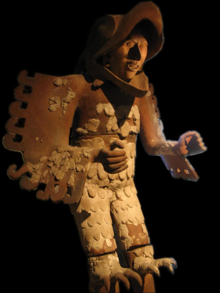 Larger than life ceramic warrior statue in the museum at the Templo Mayor.